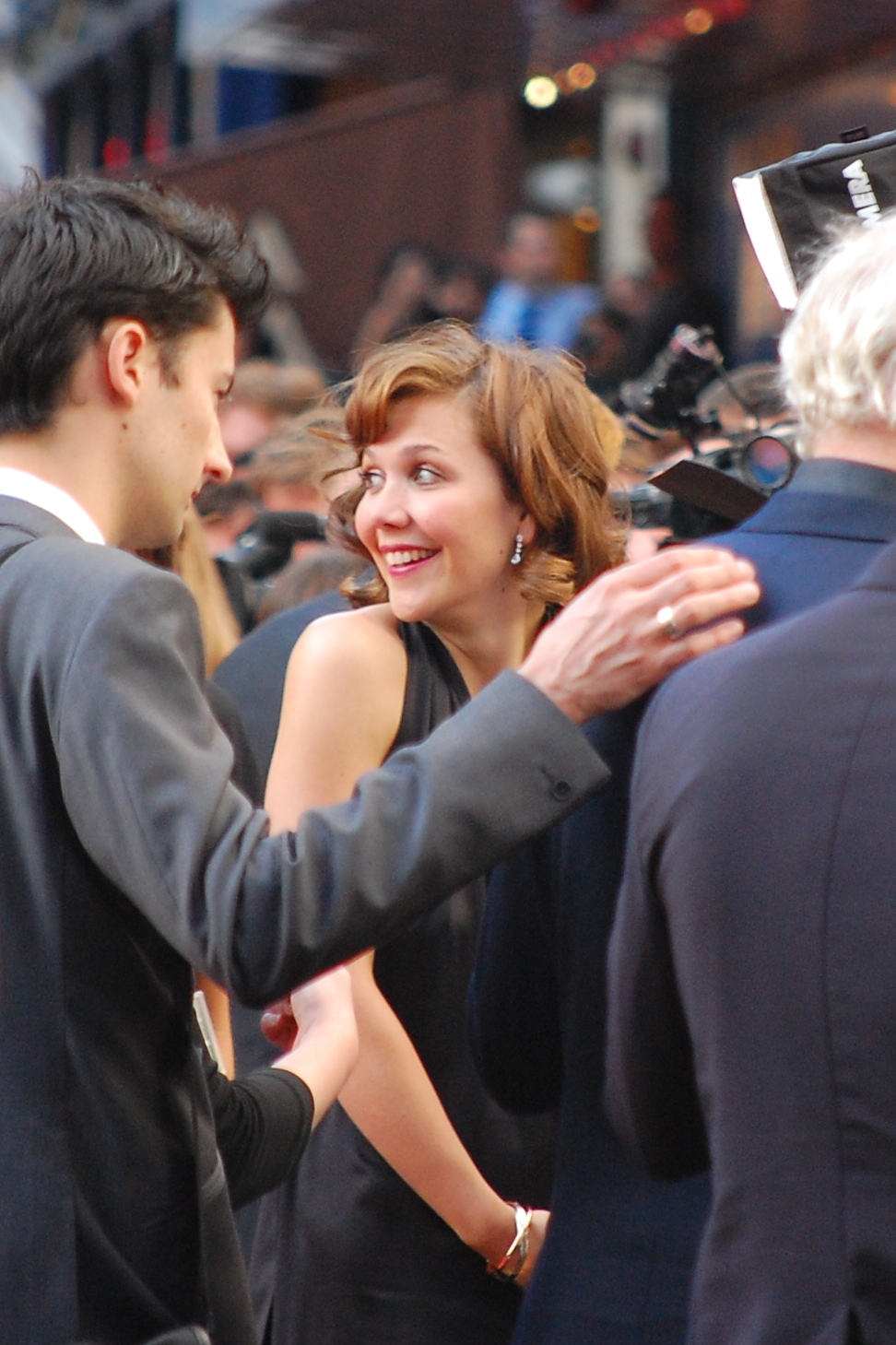 Maggie Gyllenhaal at the European premiere of The Dark Knight.